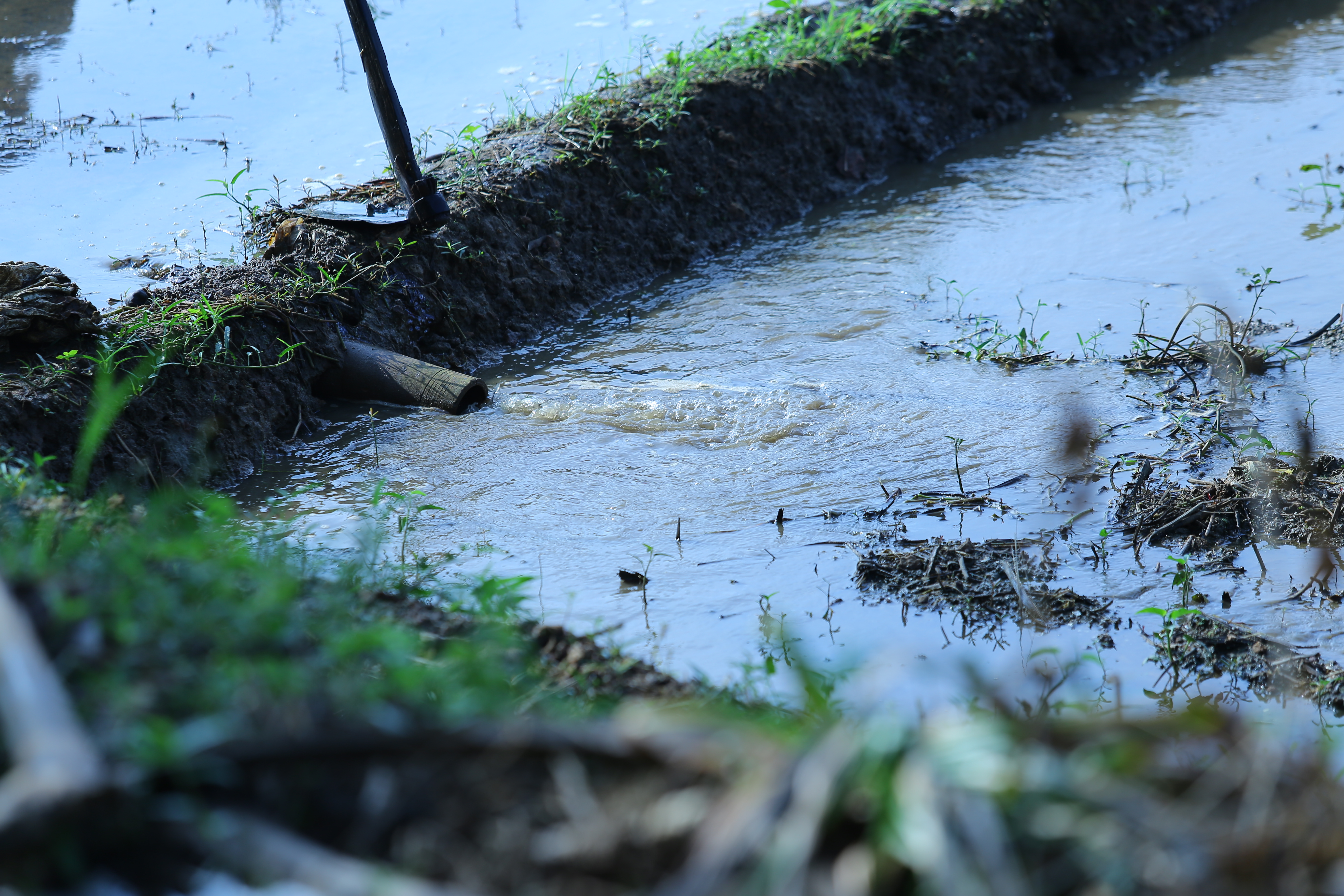 This is an image of water control in field lands, laid connected with together (